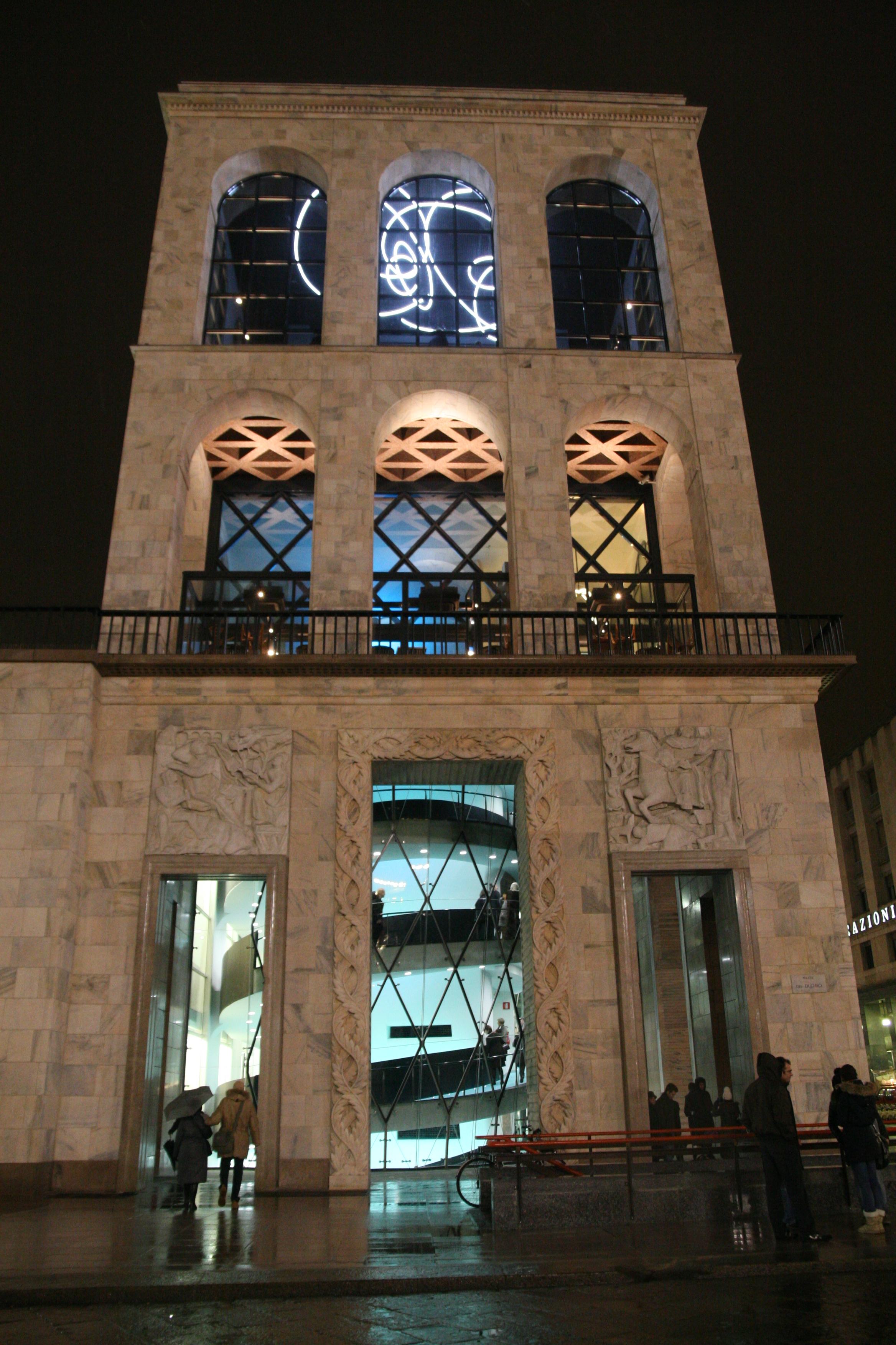 XXth Century Museum in Milan